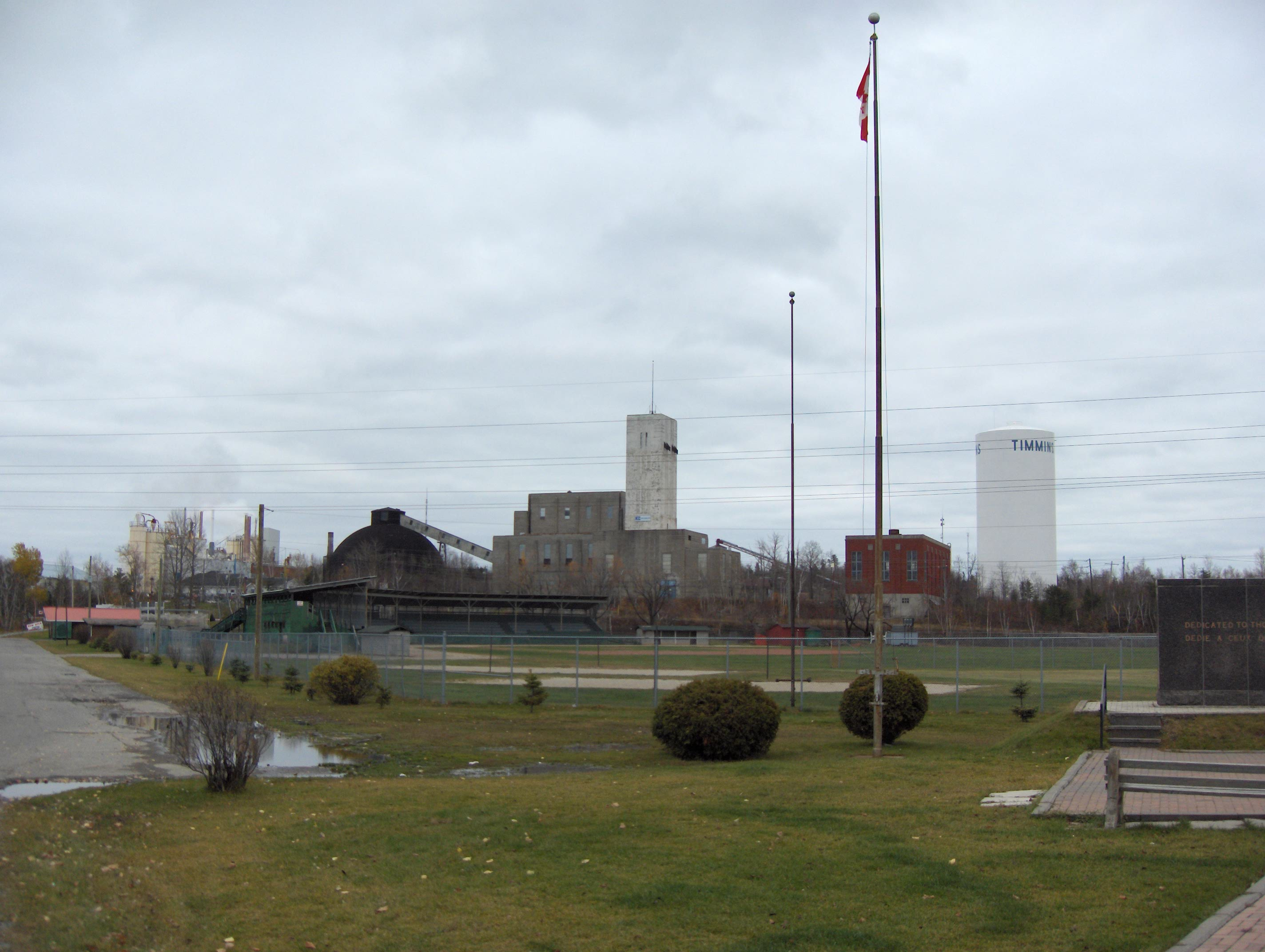 Author - John Monaghan Source - HP Photosmart R717